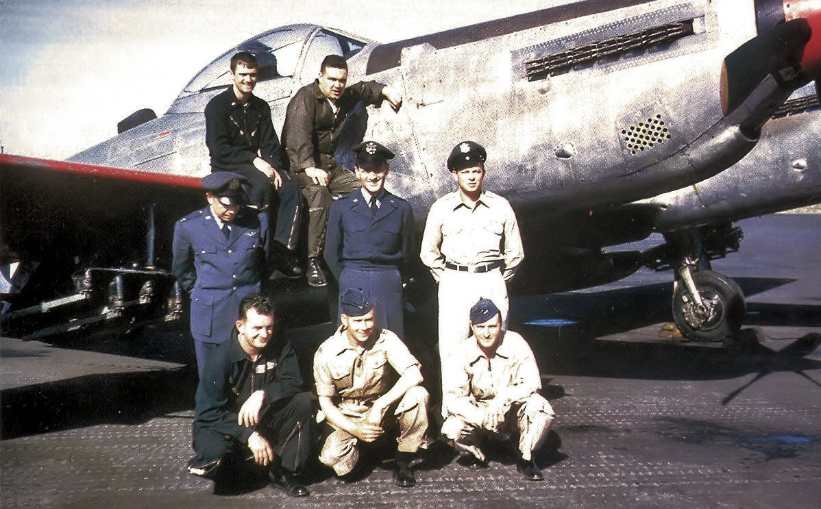 The last flight crew and ground support personel for the F-82F Twin Mustang 46-415, Ladd AFB, 1953